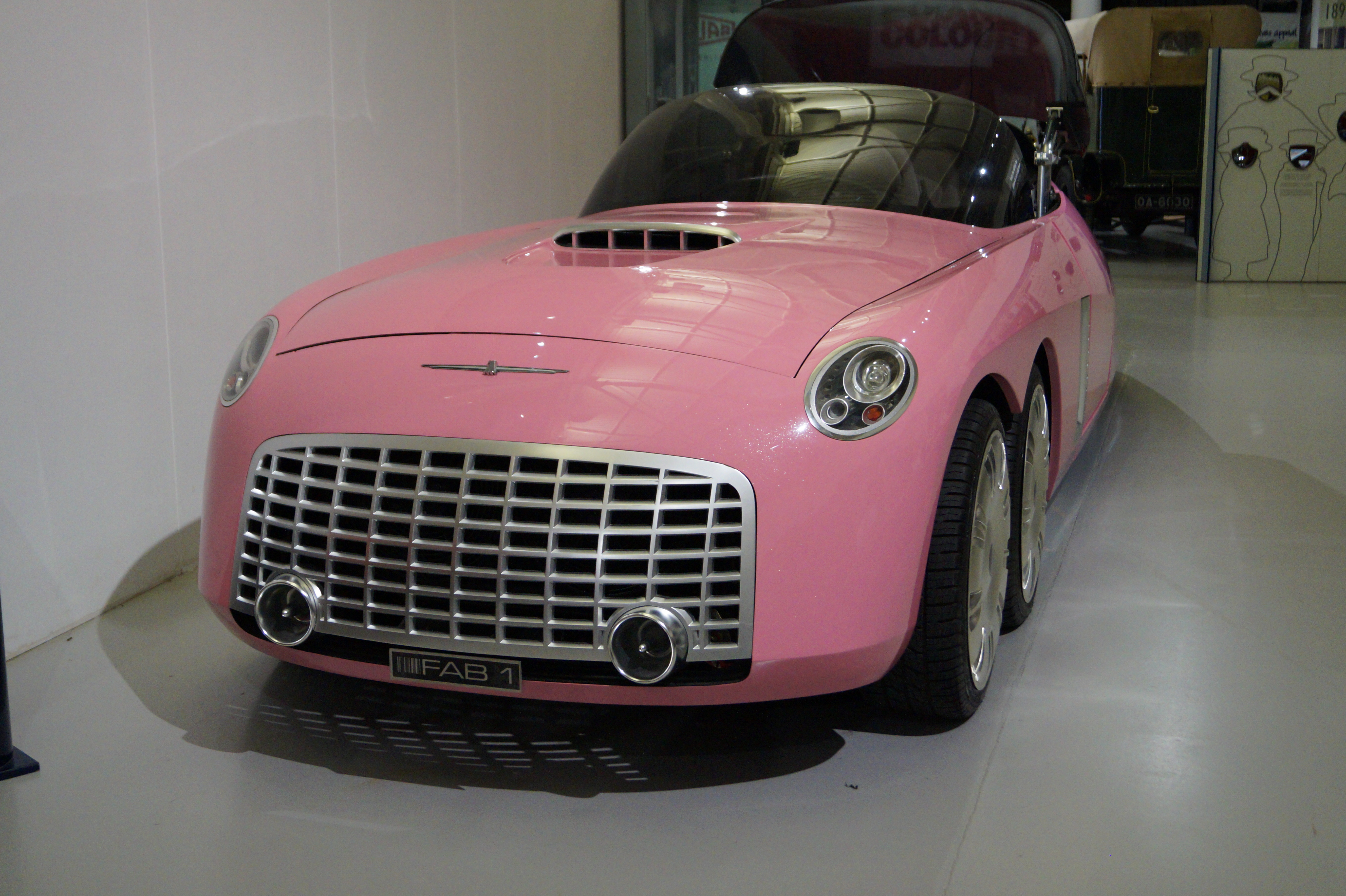 FAB1 car from the 2004 Thunderbird movie at Heritage Motor Museum Gaydon